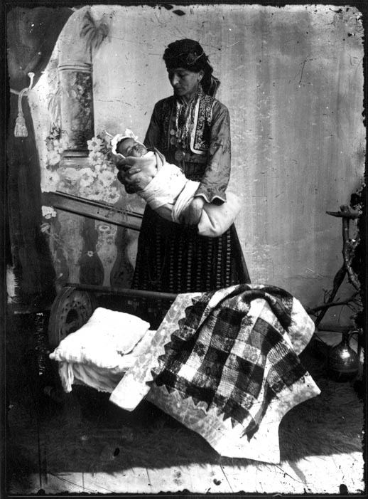 Janaki Manaki, first balkan photograph and filmmaker